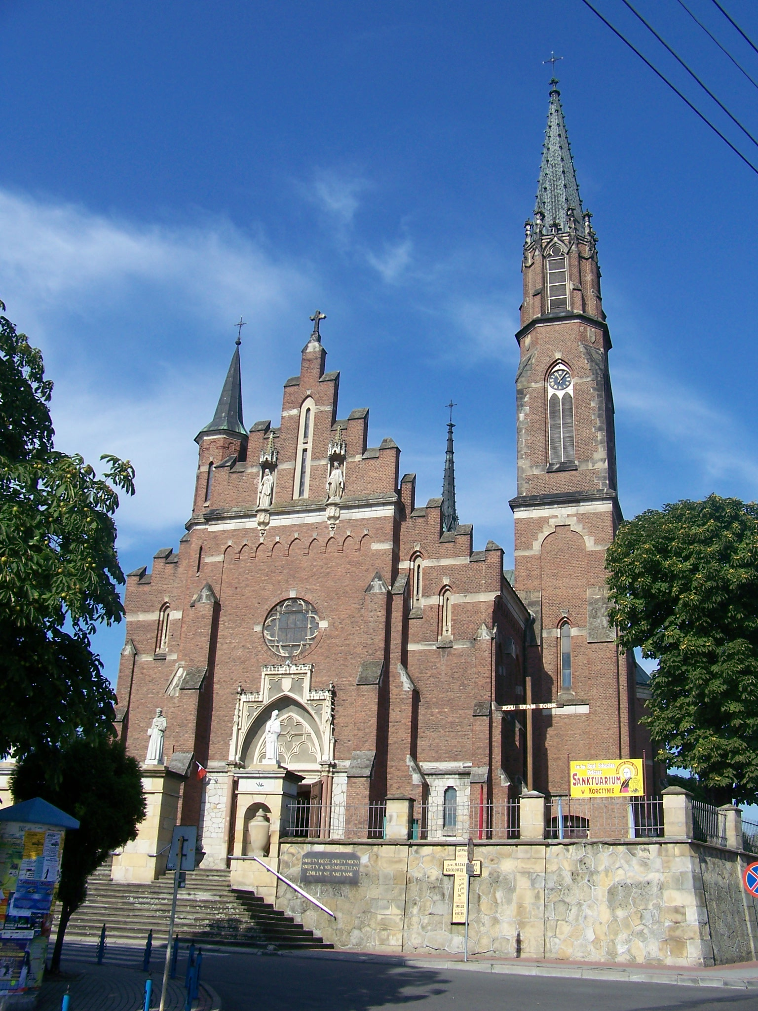 Church in Korczyna, Poland